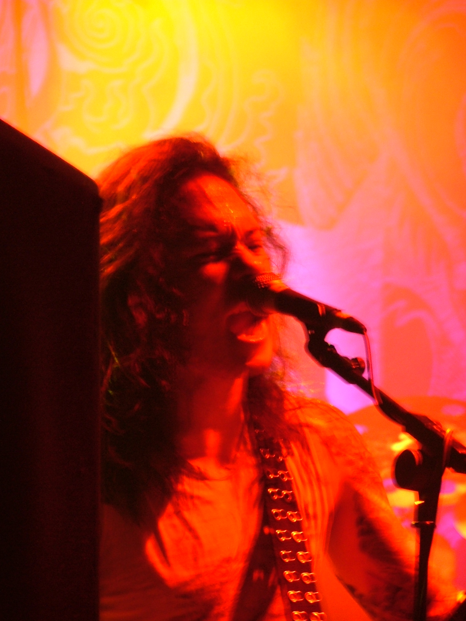 Matthew Heafy of US-american thrash metal band Trivium at a concert in Linz